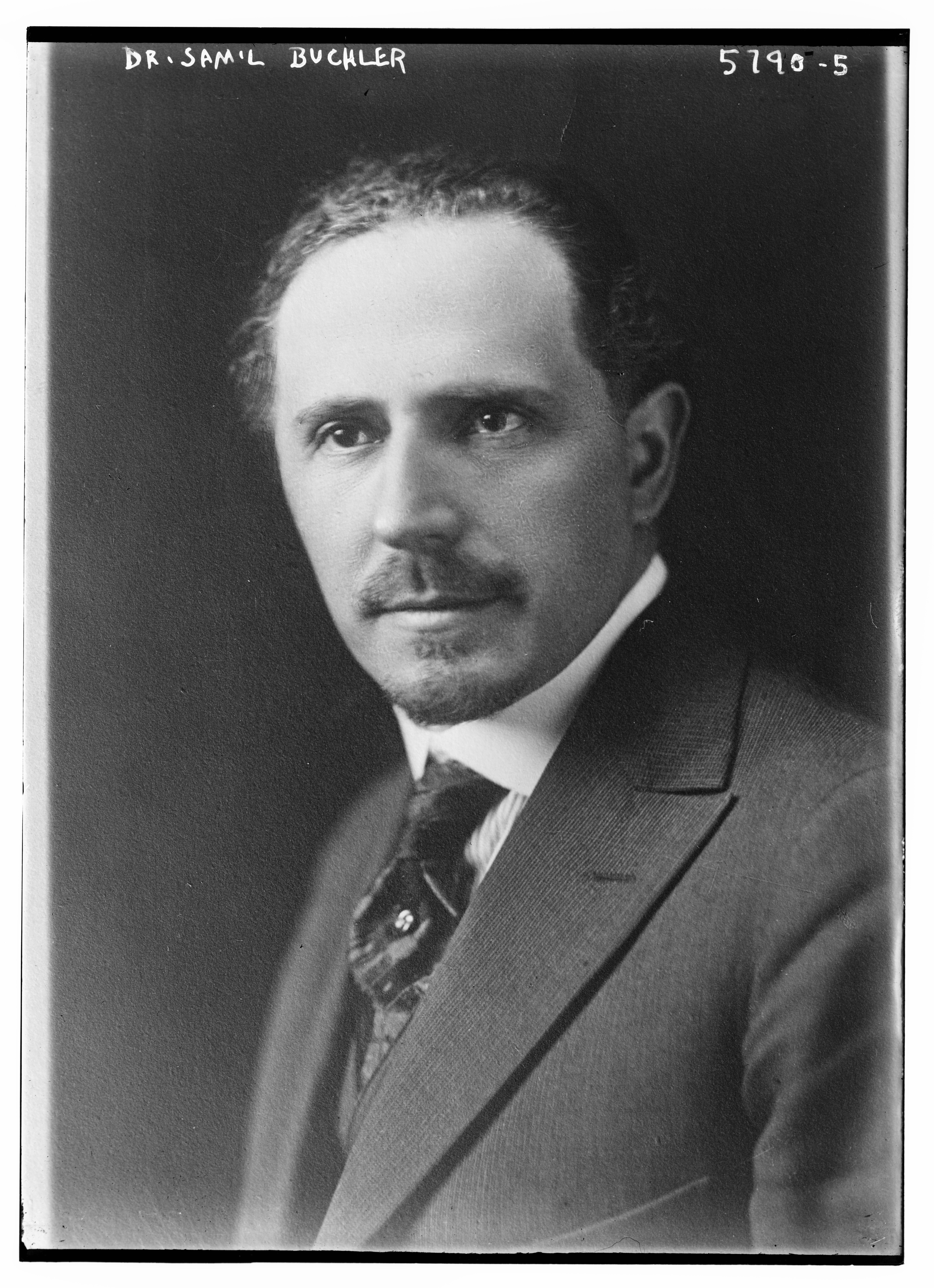 Title: Dr. Sam'l [i.e. Samuel] Buchler Abstract/medium: 1 negative : glass ; 5 x 7 in. or smaller.